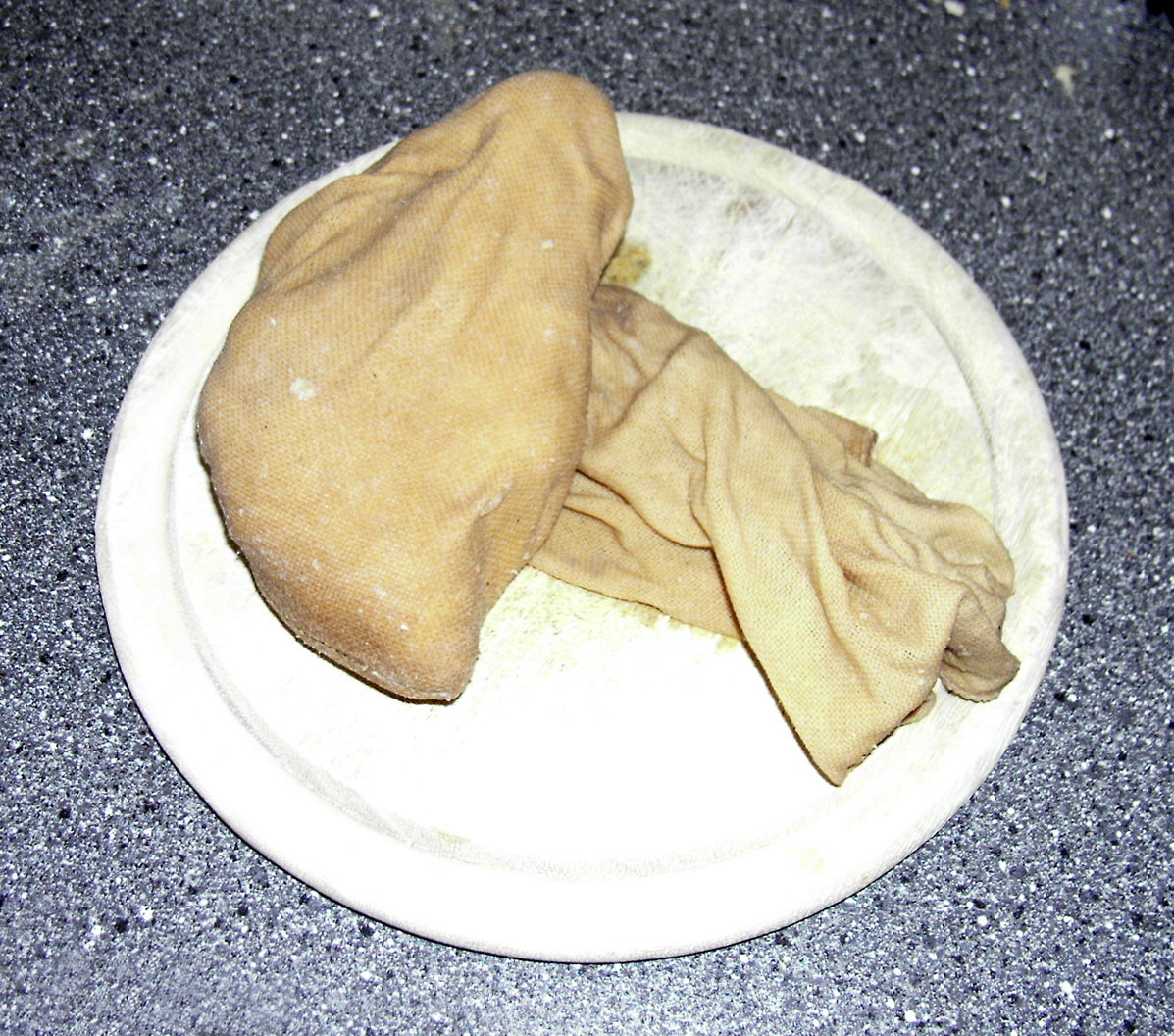 Pressing bag for dumplings